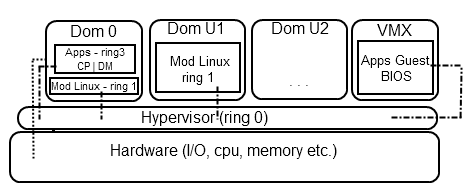 XEN architecture - ring based